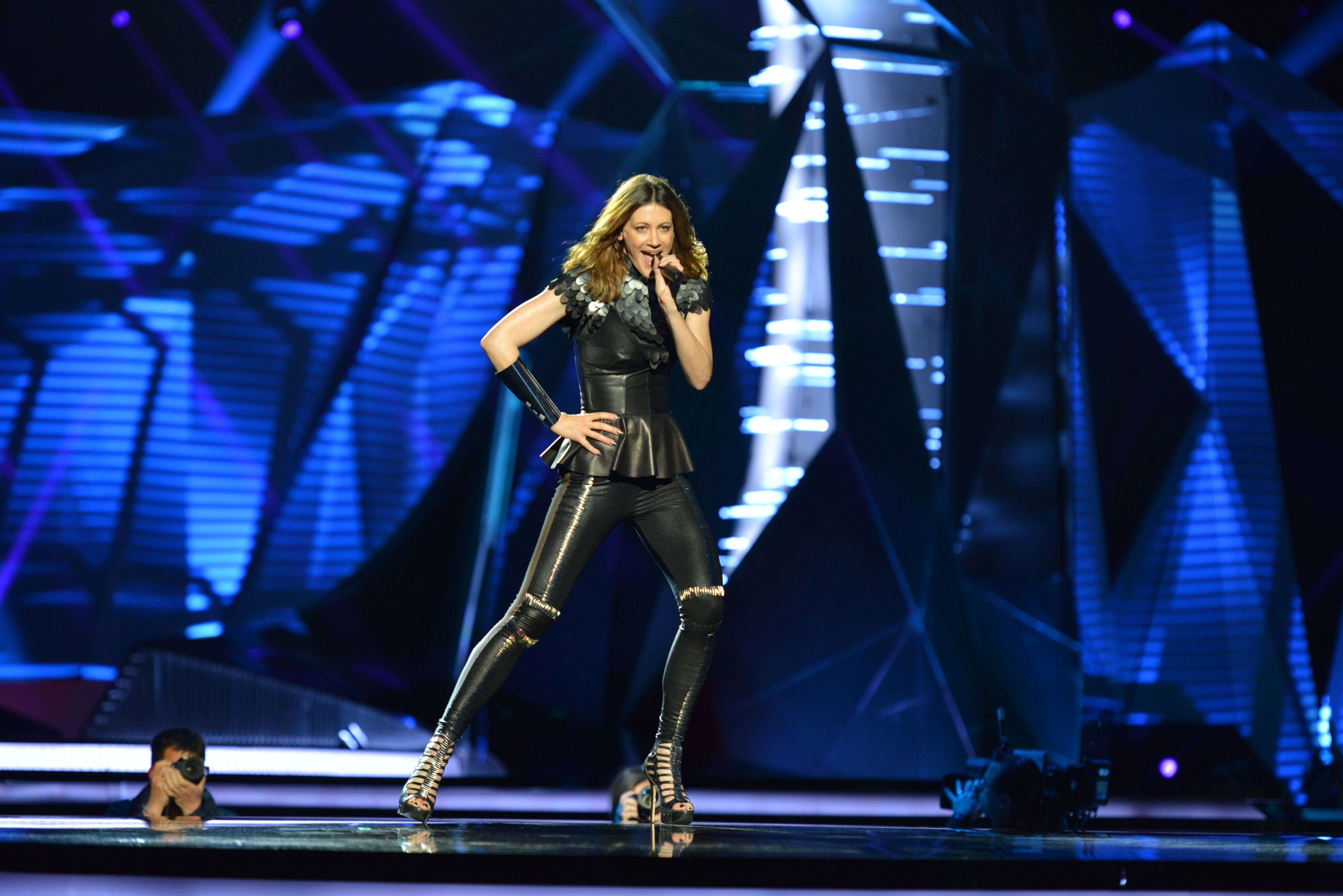 Hannah representing Slovenia with the song "Straight into Love" during the first dress rehearsal of the first semi final of the Eurovision Song Contest 2013 in Malmö. (Help translate this text)